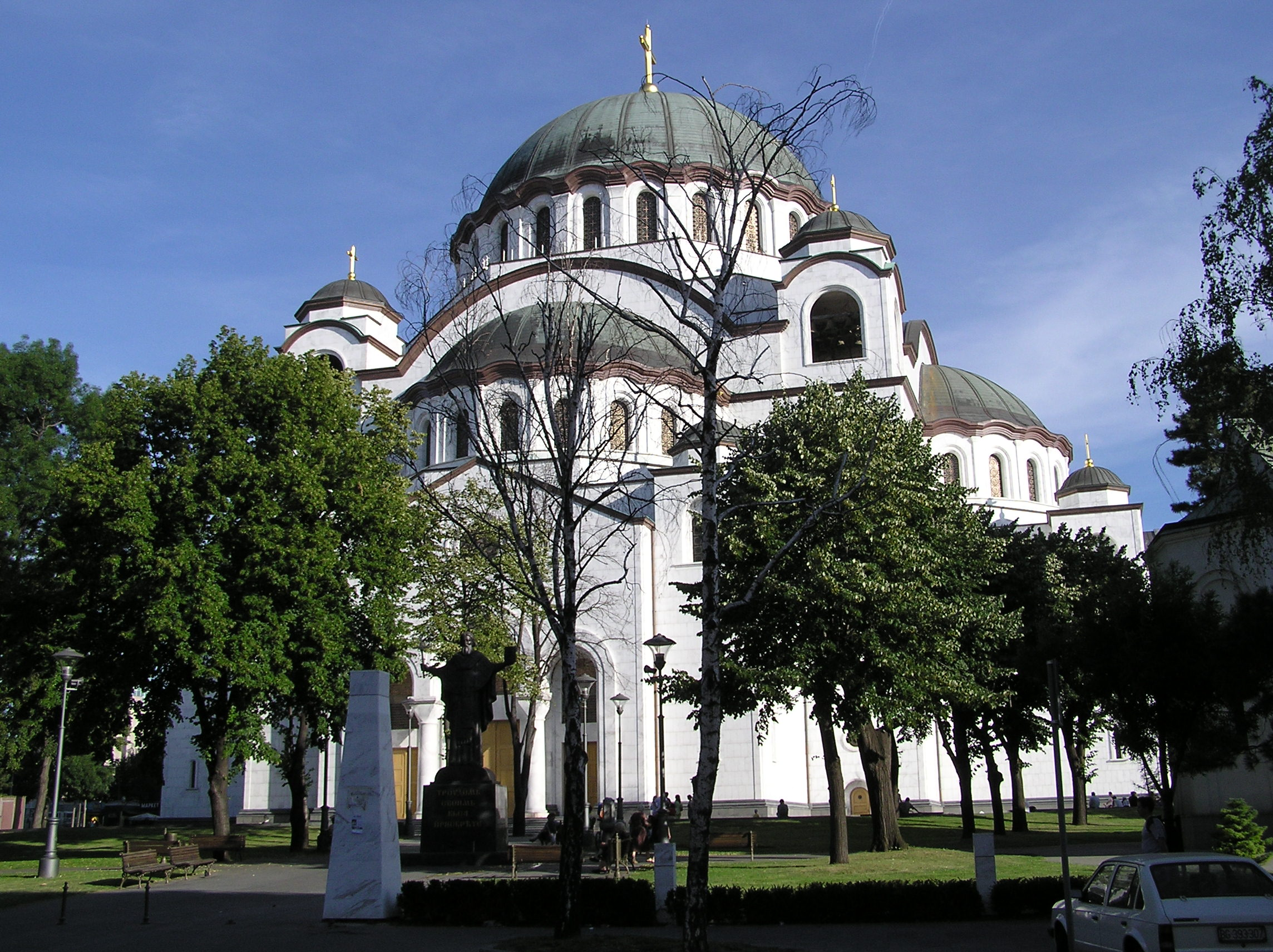 Temple of Saint Sava in Beograd.